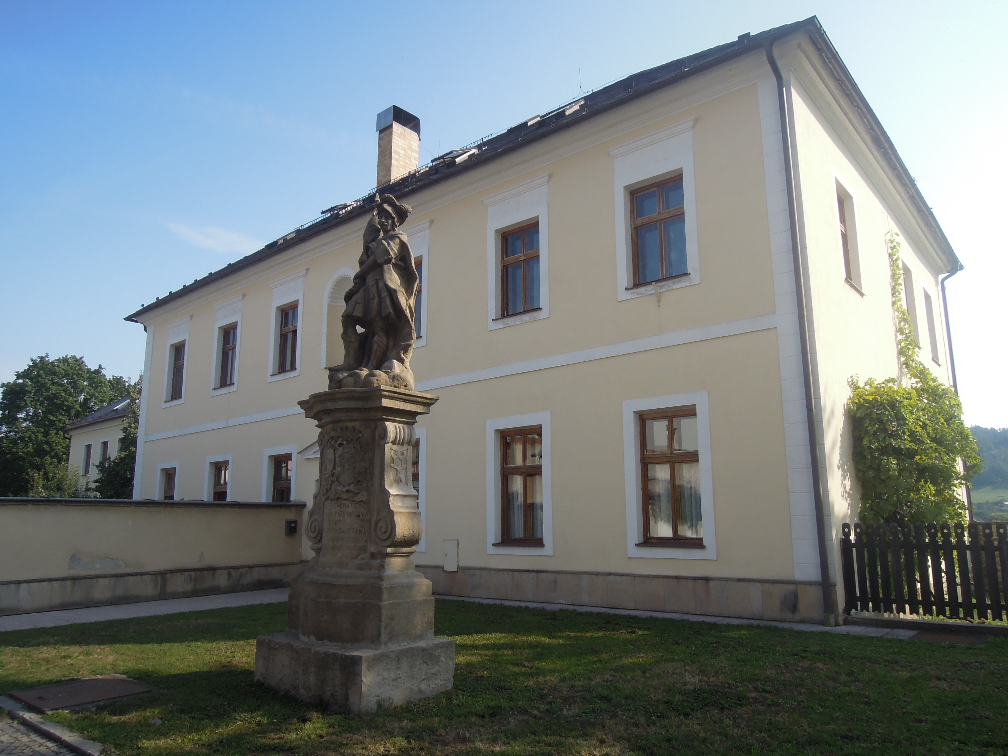 Rectory building with statue of St. Florian near Church of St. Bartholomew in Odry, Nový Jičín District, Moravian-Silesian Region, Czech Republic